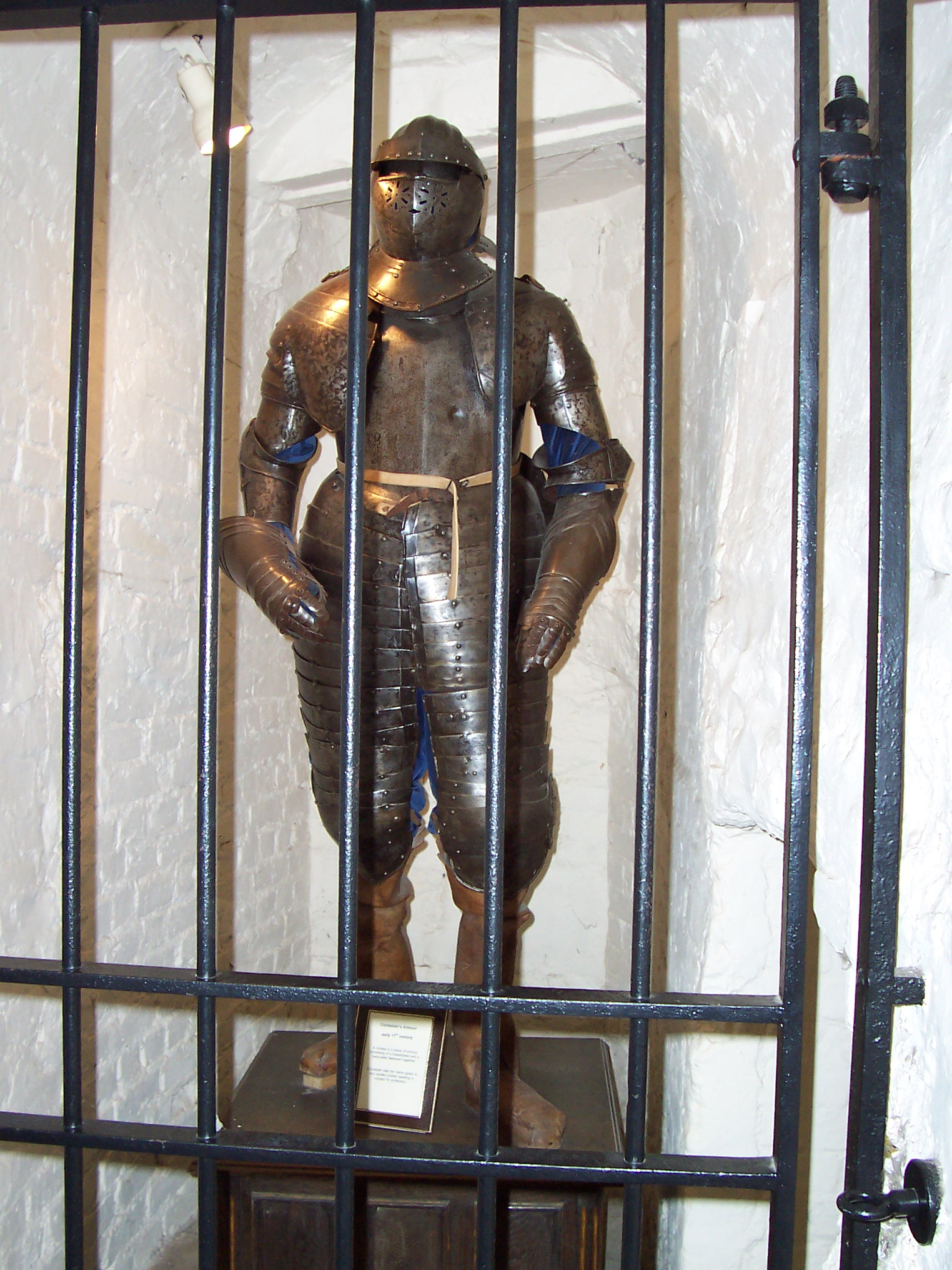 Suit of armour It's a Cuirassir Armour with boots instead greaves